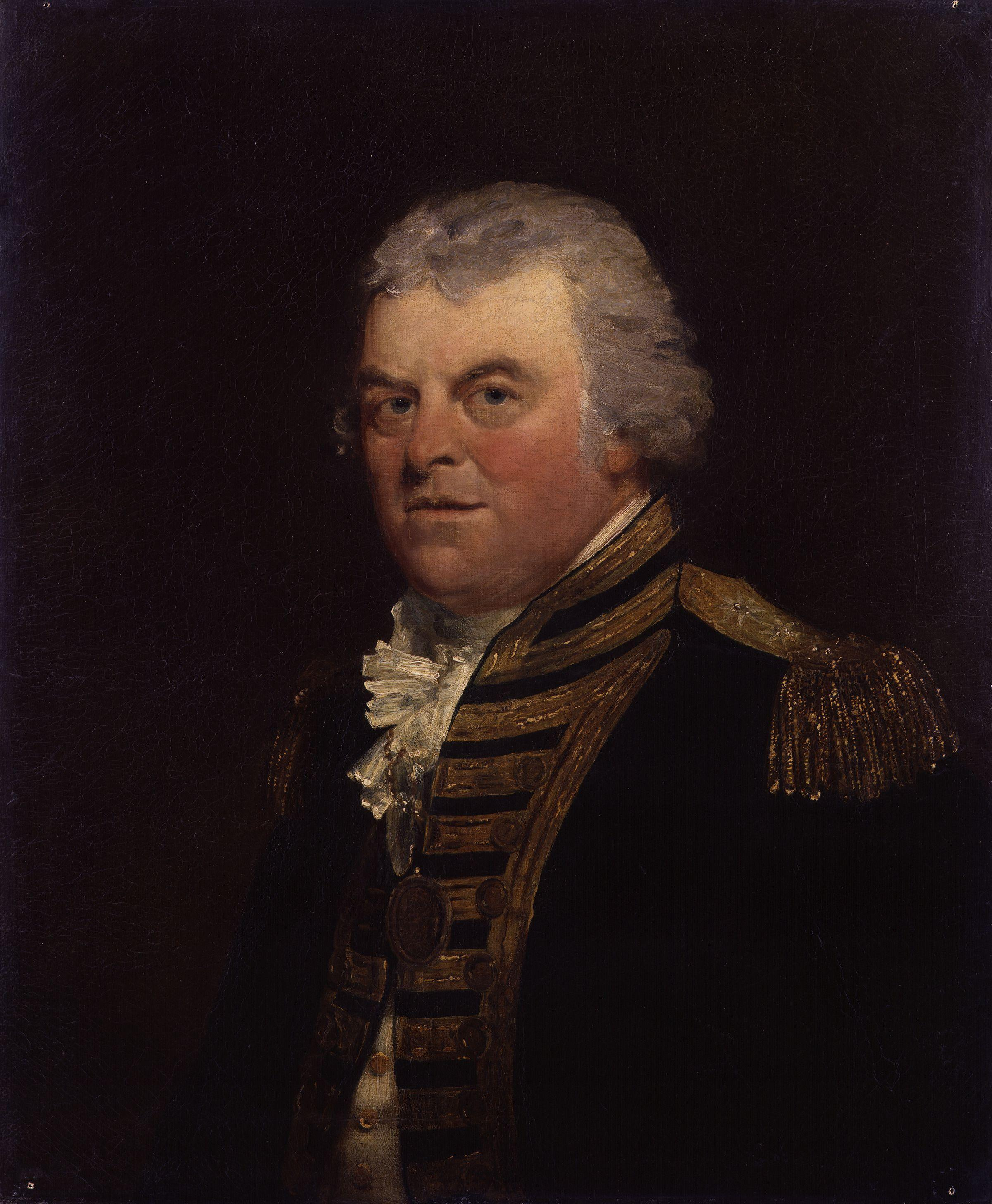 All images in this batch have been confirmed as author died before 1939 according to the official death date listed by the NPG.